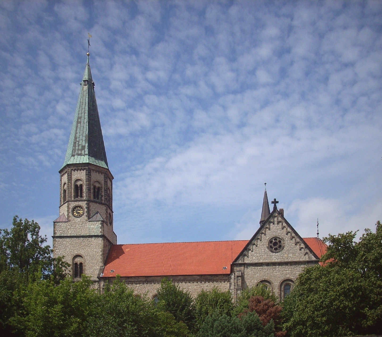 St. Caecilia Catholic Church, Harsum